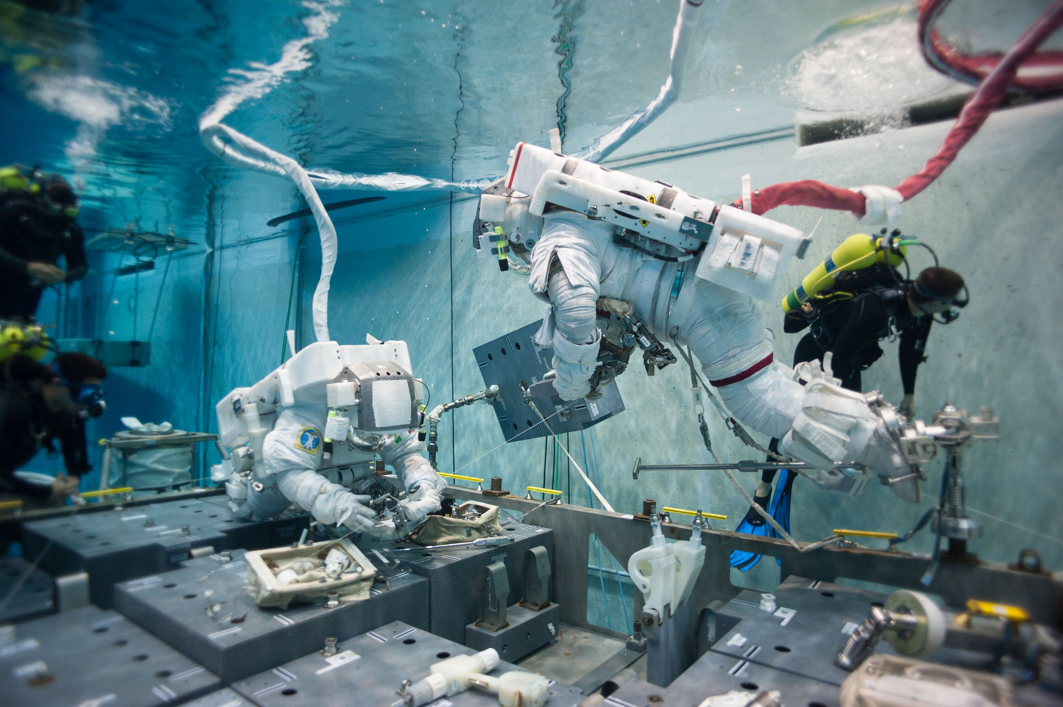 NASA astronaut Terry Virts simulates extravehicular activity in the Johnson Space Center's Neutral Buoyancy Laboratory. His session, in which he was joined by European Space Agency astronaut Samantha Cristoforetti (background), was to evaluate proper procedures and techniques in support of a possible weekend space walk by two astronauts on the International Space Station to trouble-shoot an ammonia leak issue, discovered earlier in the week. A number of SCUBA-equipped divers were in the water to assist the astronauts.